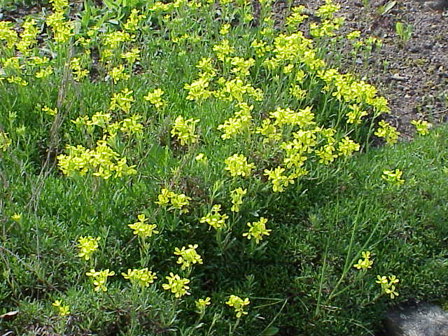 Species: Erysimum helveticum Family: Brassicaceae Image No. 2